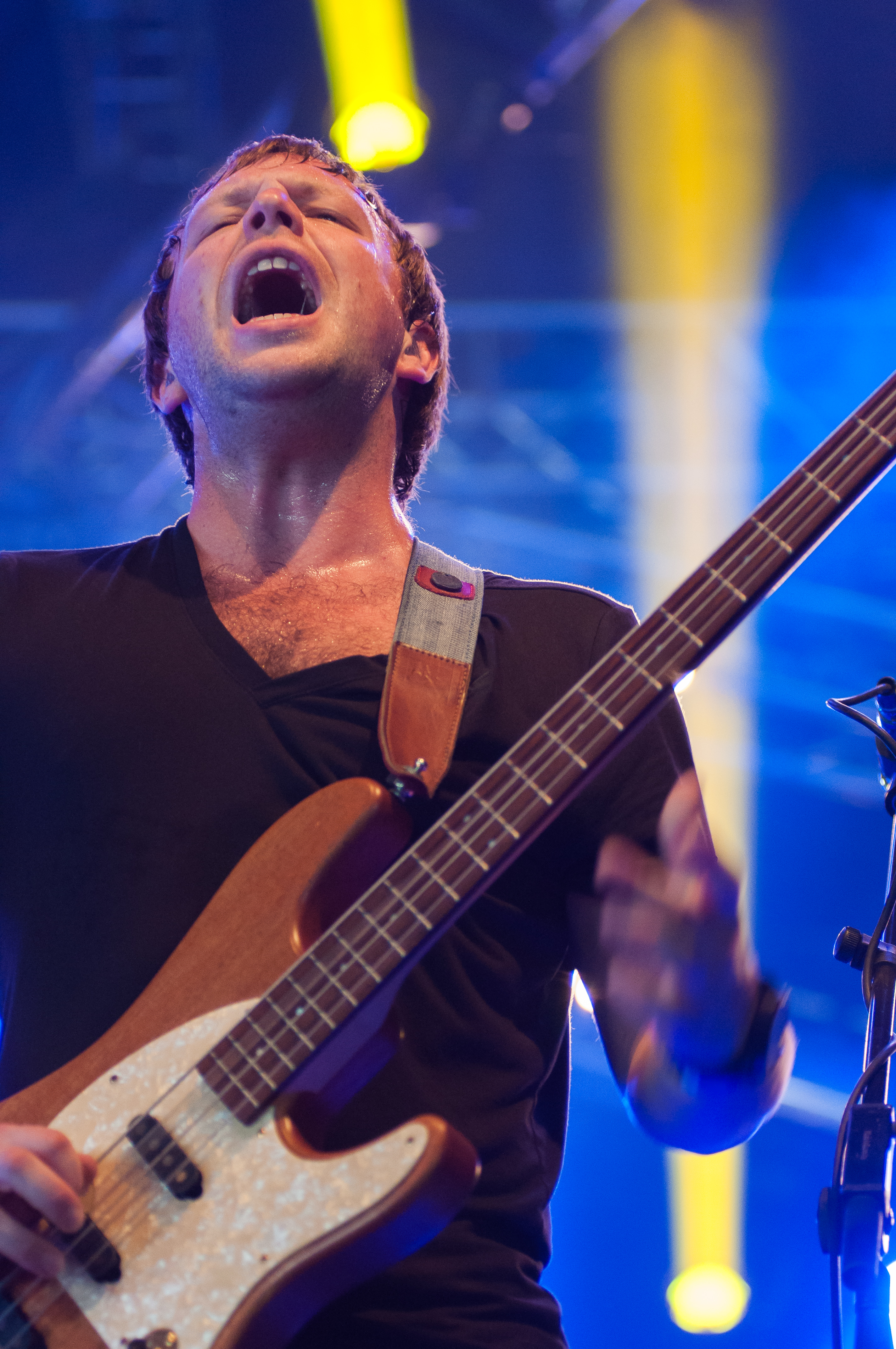 Bassist Ben McKee of American alternative rock band Imagine Dragons performing at the 2013 Ilosaarirock festival in Joensuu, Finland.